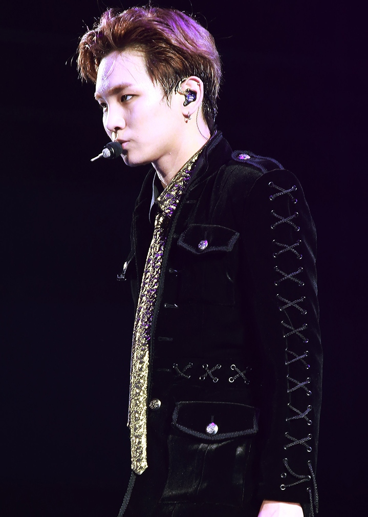 Key at the SHINee World Concert III in Taiwan on May 11, 2014.